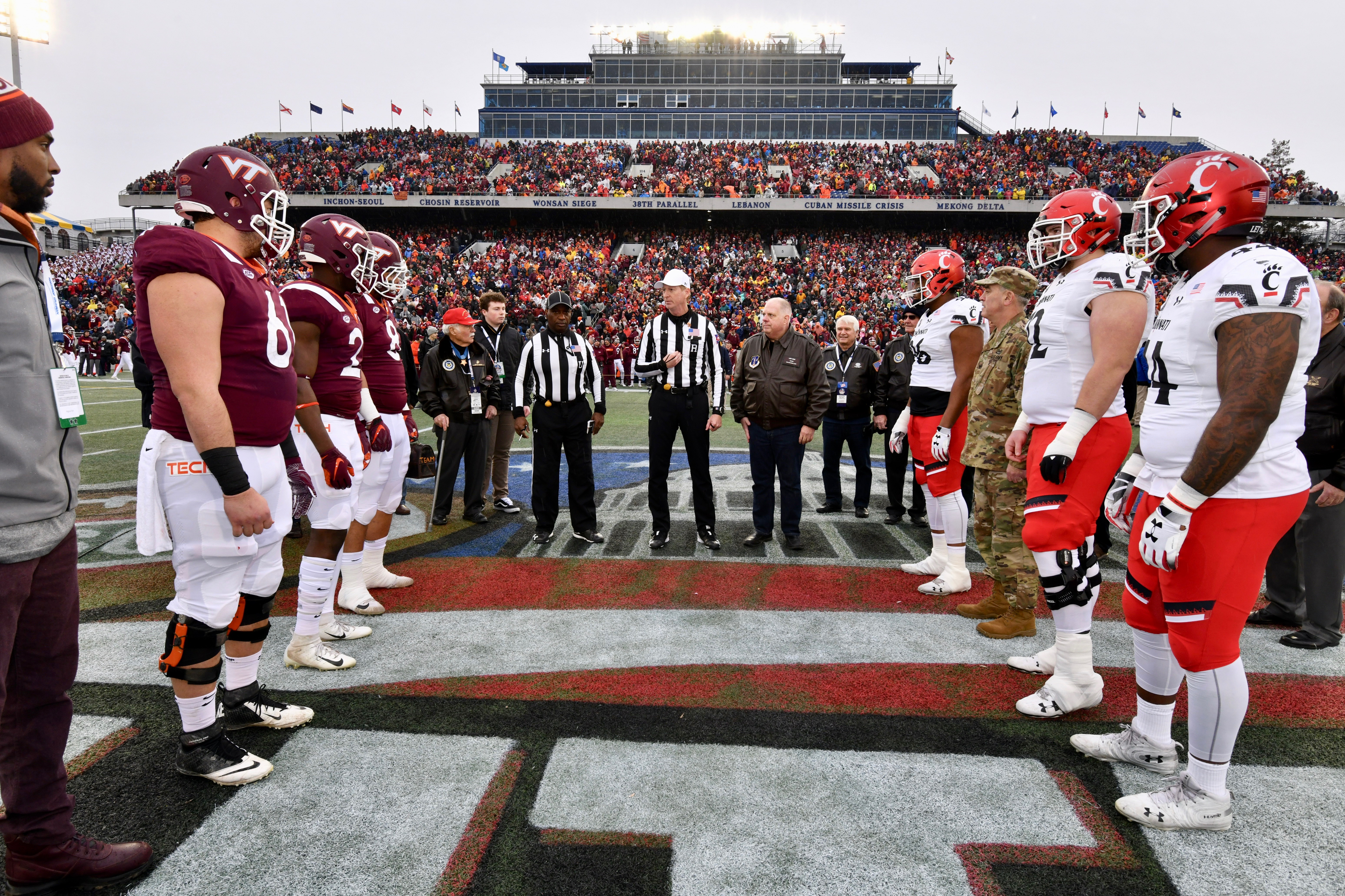 Governor Hogan Tosses the Coin and attends the Military Bowl Game by Tom Nappi,Joe Andrucyk at Navy Marine Corps Stadium, Annapolis MD 21401